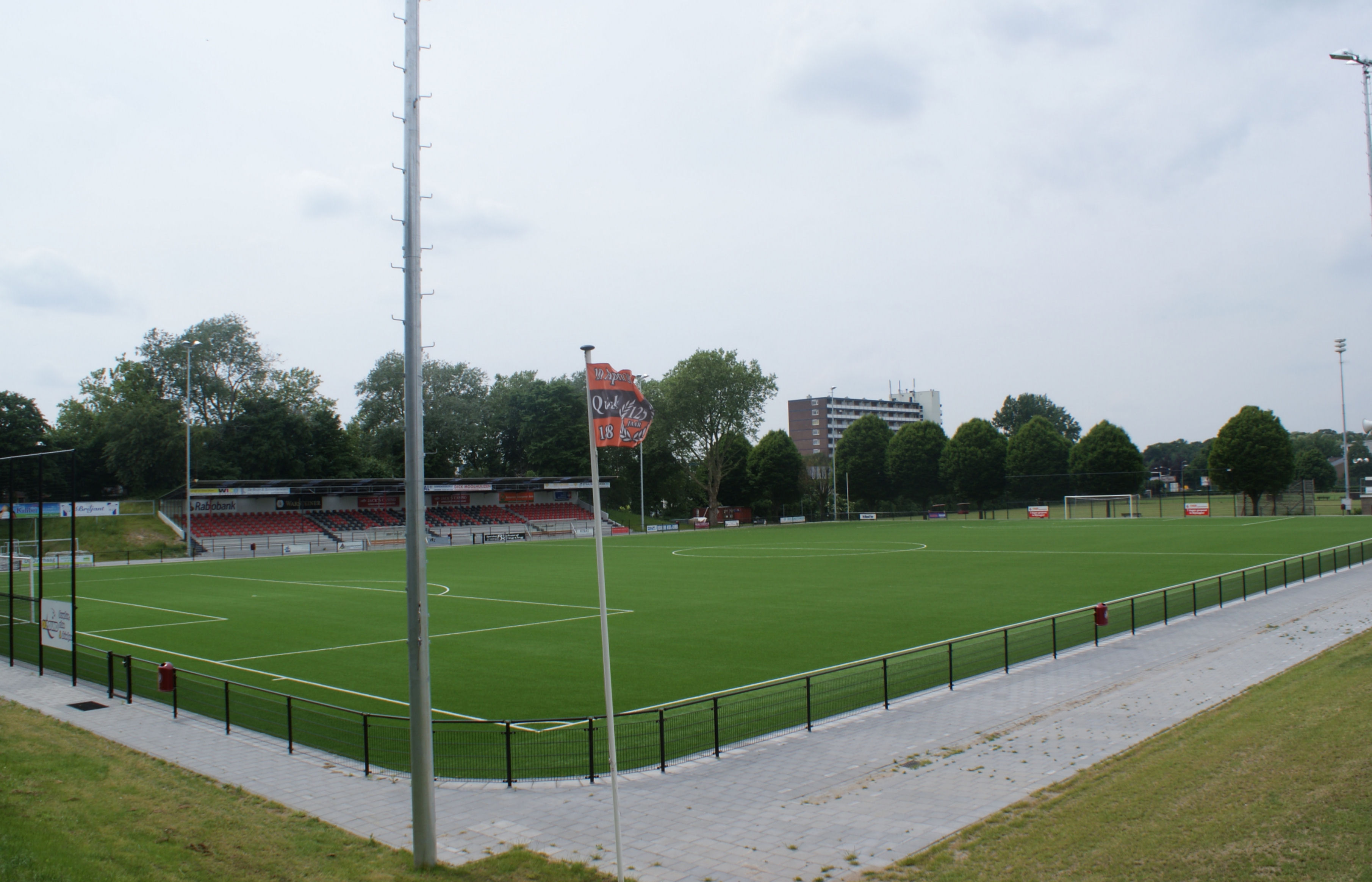 Stadion De Dennen Quick 1888